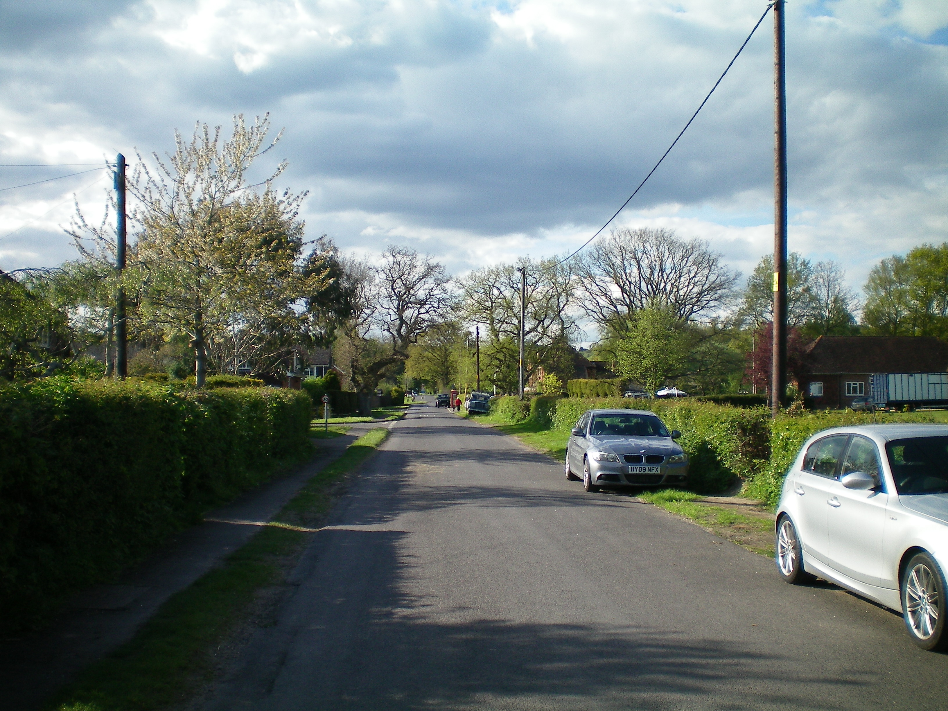 Roman road running through Milland, West Sussex, England.